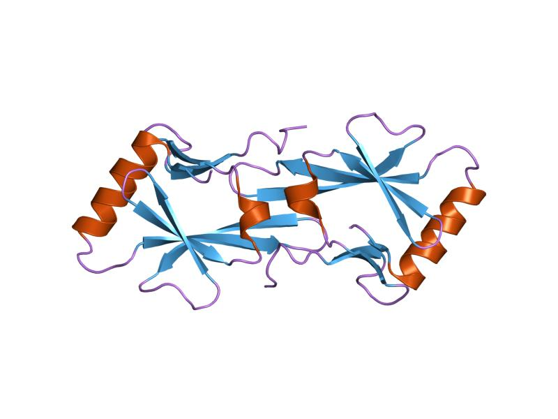 Cartoon representation of the molecular structure of protein registered with 1s98 code.